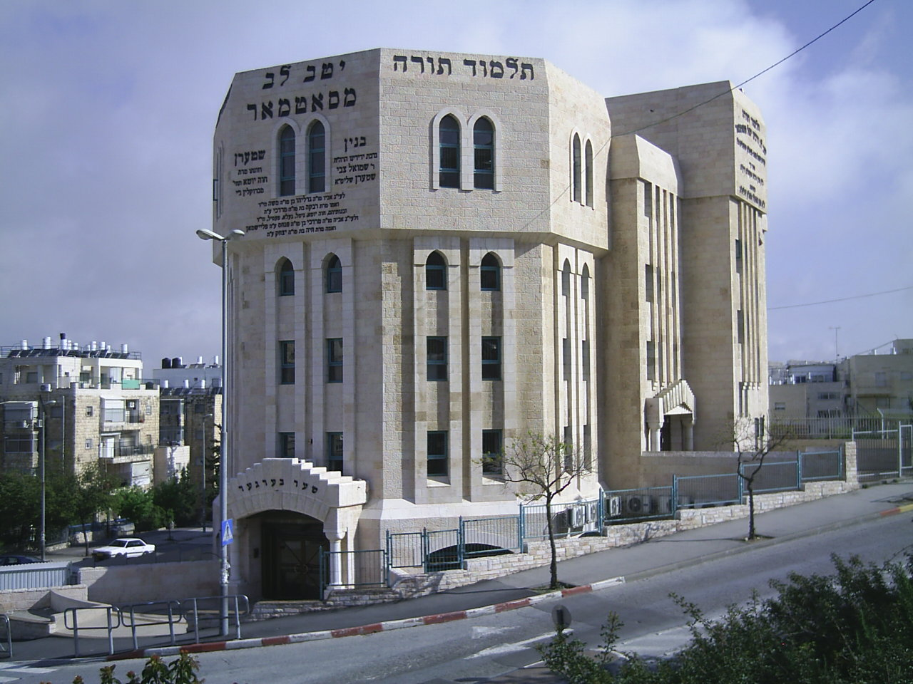 Talmud Torah Satmar in Jerusalem, 18 Givat Moshe street.